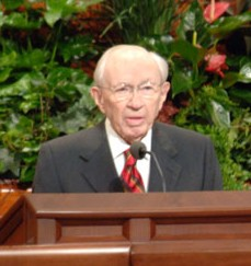 Gordon B. Hinckley from GC Conference Oct 2007 (zoomed from very far away :)